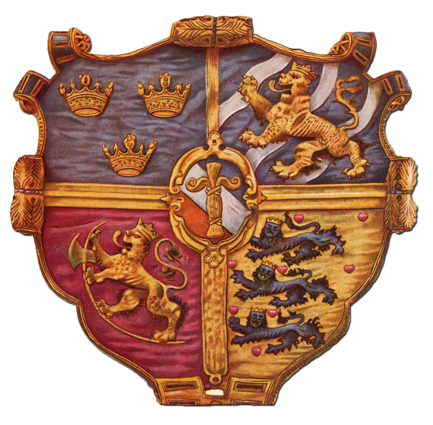 Coat of Arms of Sweden during the reign of Eric XIV (1560-1568)